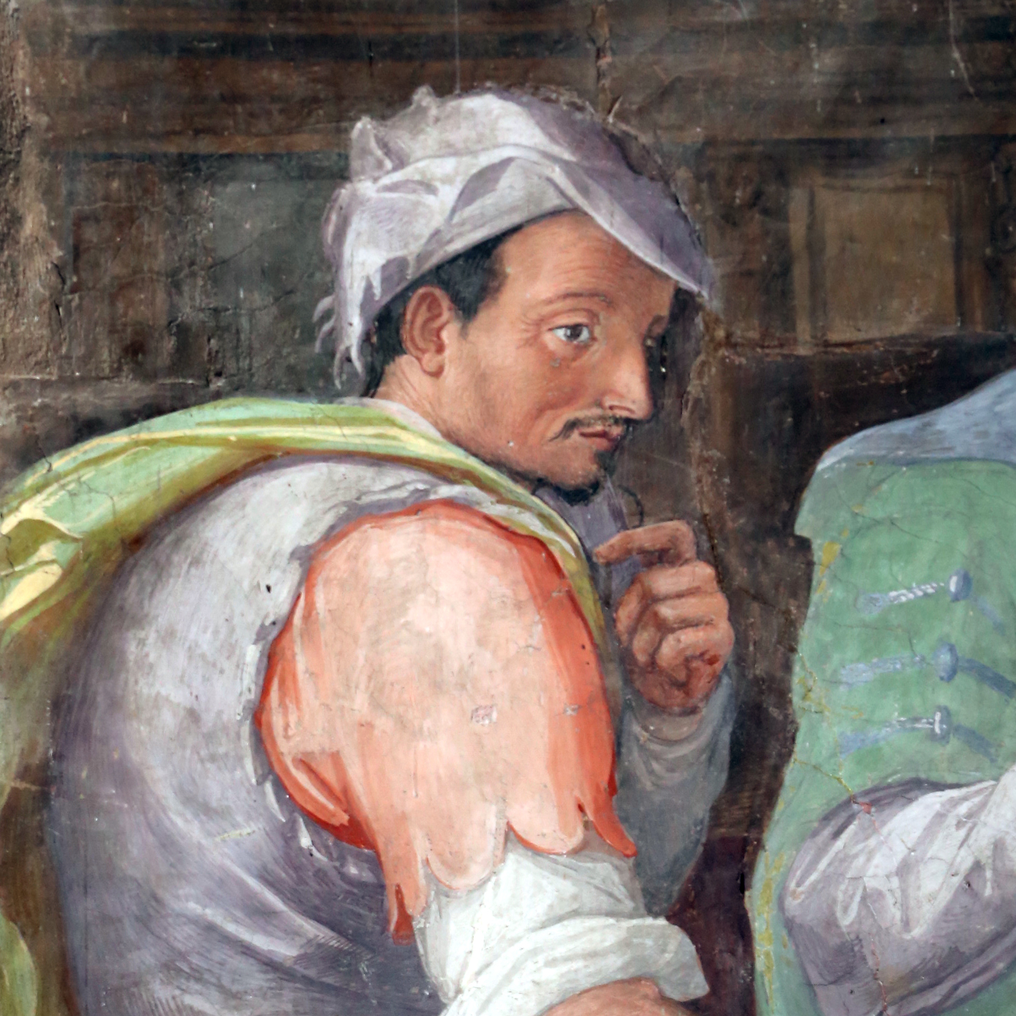 Abbazia di San Michele Arcangelo a Passignano - Cappella di San Giovanni Gualberto